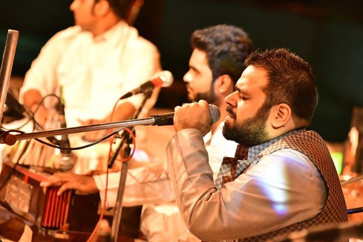 Sufi musician Dhruv Sangari (Bilal Chishty Sangari) during a performance with his group Rooh Sufi Ensemble in Sarkhej Roza, Ahmedabad in 2016.